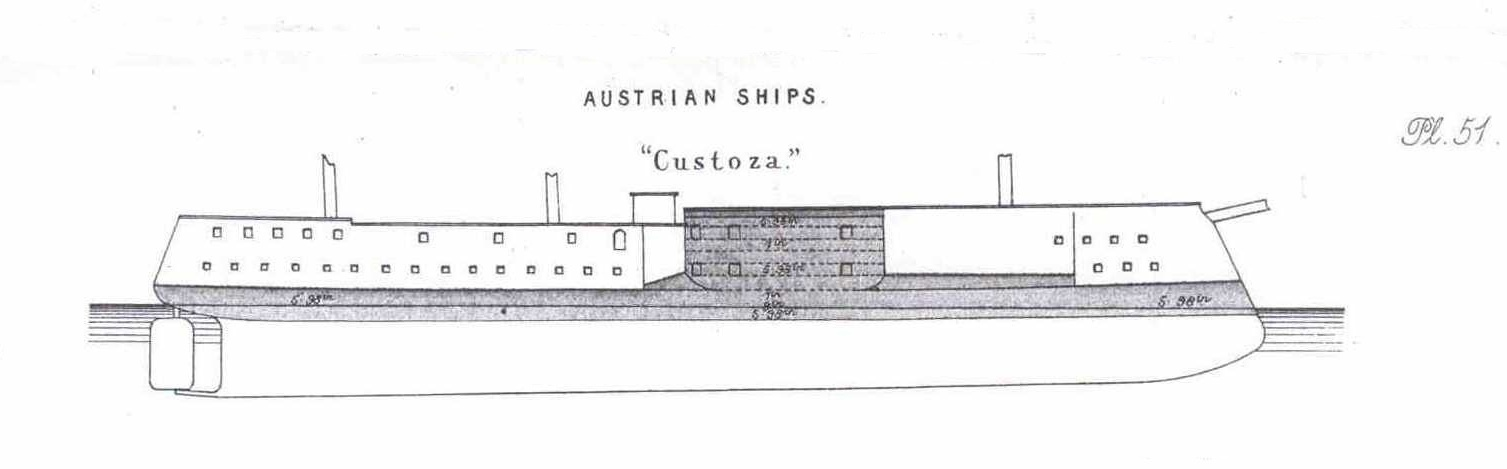 Line drawing of the Austria-Hungarian ironclad Custoza. The grey areas show the extent of the armour.